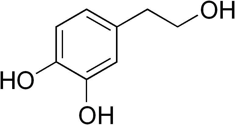 Chemical structure of hydroxytyrosol created with ChemDraw